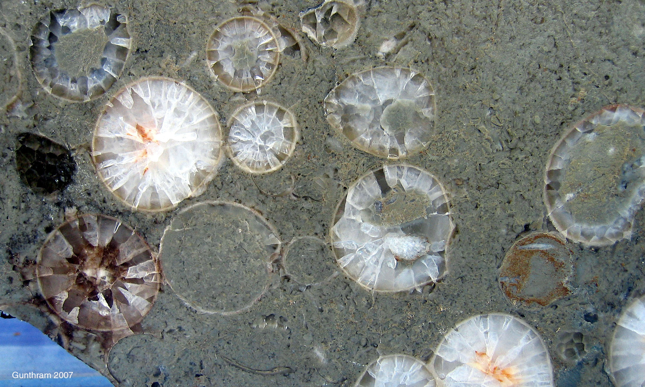 Polished section of limestone with several individuals of Sphaeronites pomum (Echinodermata: Cystoidea), Tremadocian (Lower Ordovician), Degerhamn, island of Öland, Sweden. Width of section shown is about 10 cm. Most of the shells are entirely filled with sparry calcite.